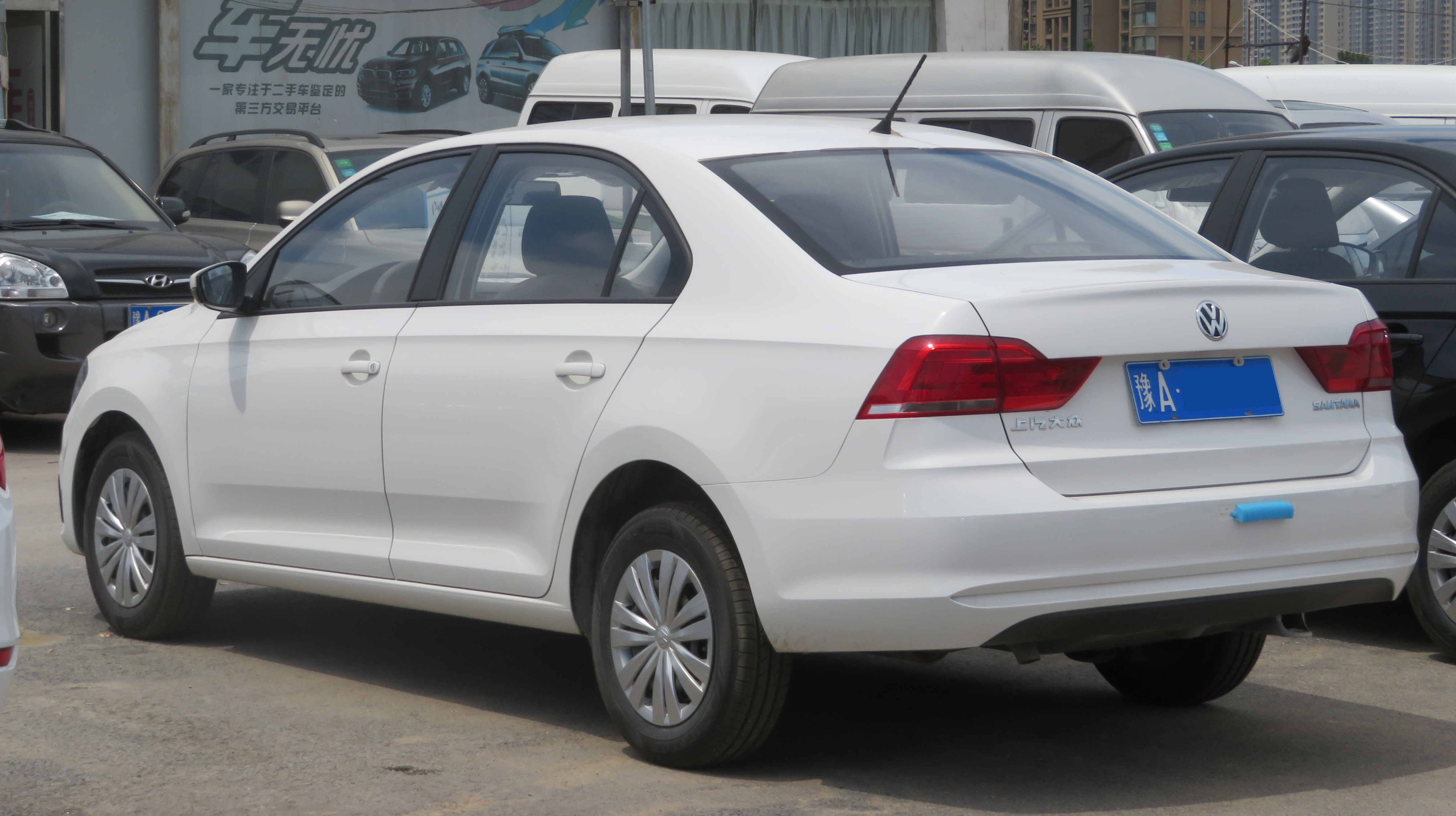 Photographed in Zhengzhou, Henan province, China